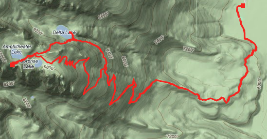 A rough map of ampitheater lake ridge, made with data from